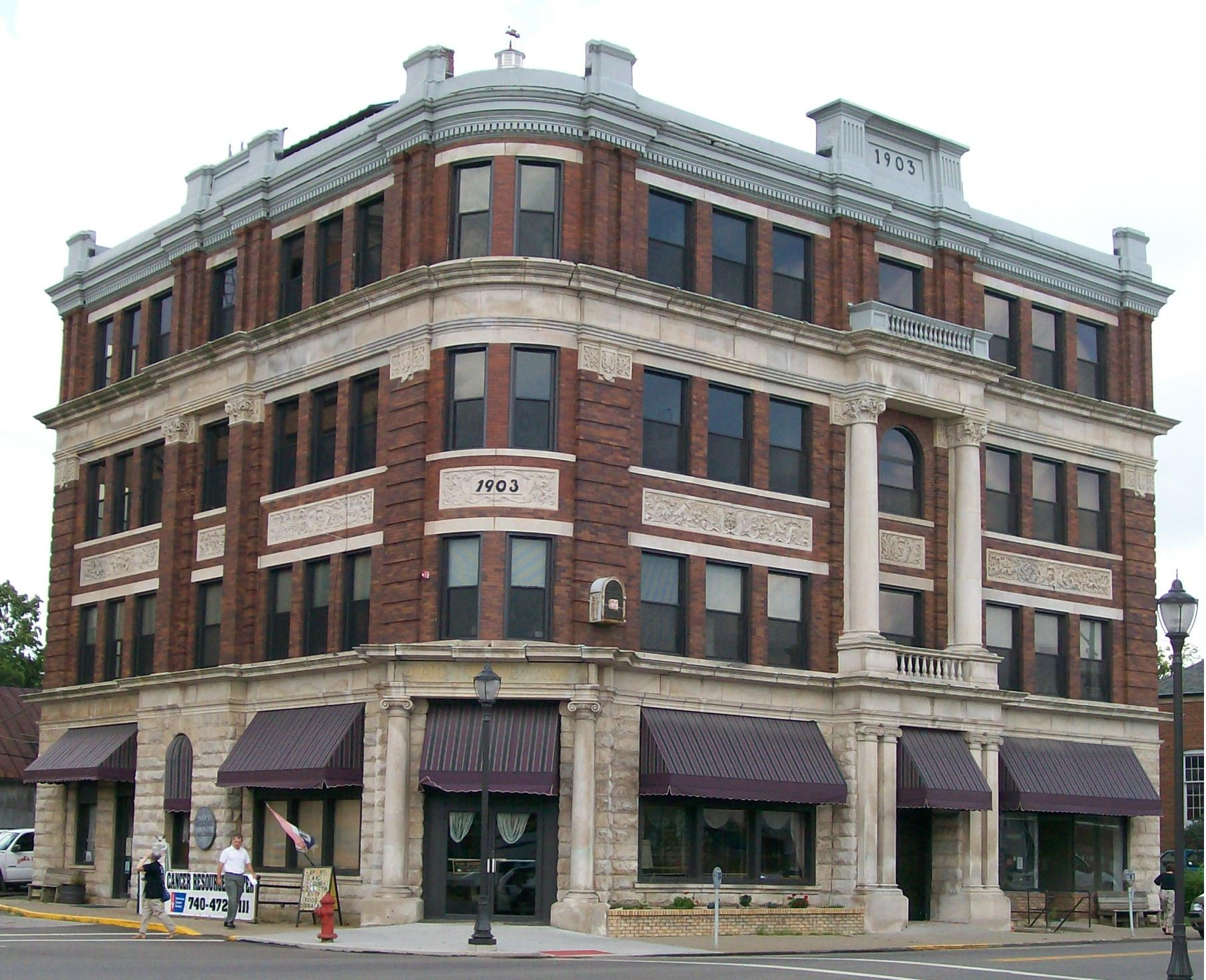 w:Southern side and front of the Monroe Bank, located at 117 N. Main Street (State Routes 26 and 800) in Woodsfield, Ohio, United States. Built in 1903 and since converted into lawyers' and government officials' offices, it is listed on the National Register of Historic Places.